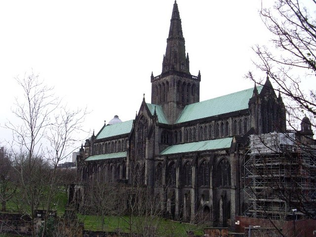 Glasgow Cathedral from Glasgow Necropolis